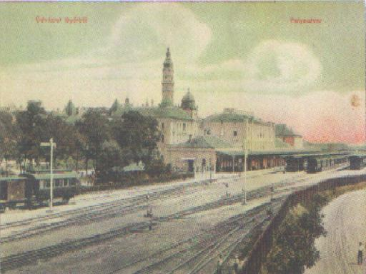 Railway station of Győr, Hungary